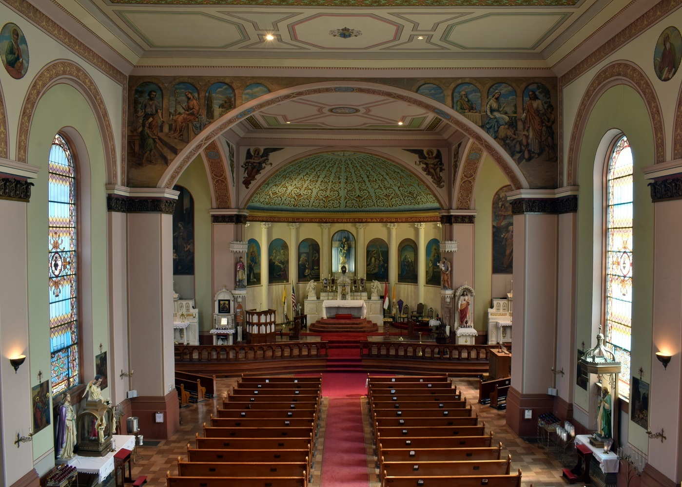 Saint Mary of Victories Church (St. Louis, MO) - nave2